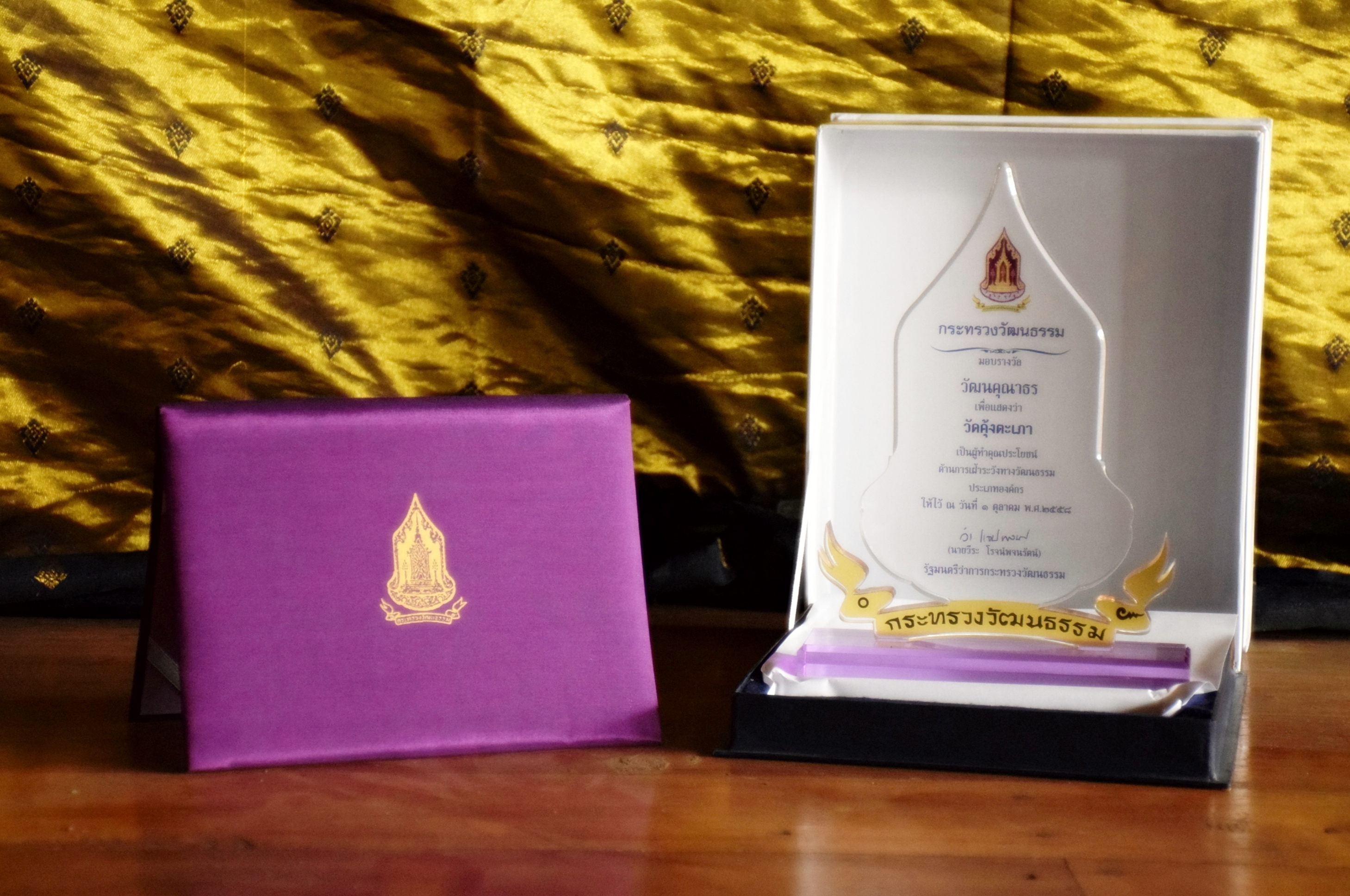 . at Thailand Cultural Centre. Date2015SourceOwn workAuthor ผู้สร้างสรรค์ผลงาน/ส่งข้อมูลเก็บในคลังข้อมูลเสรีวิกิมีเดียคอมมอนส์ - เทวประภาส มากคล้าย Permission (Reusing this file)